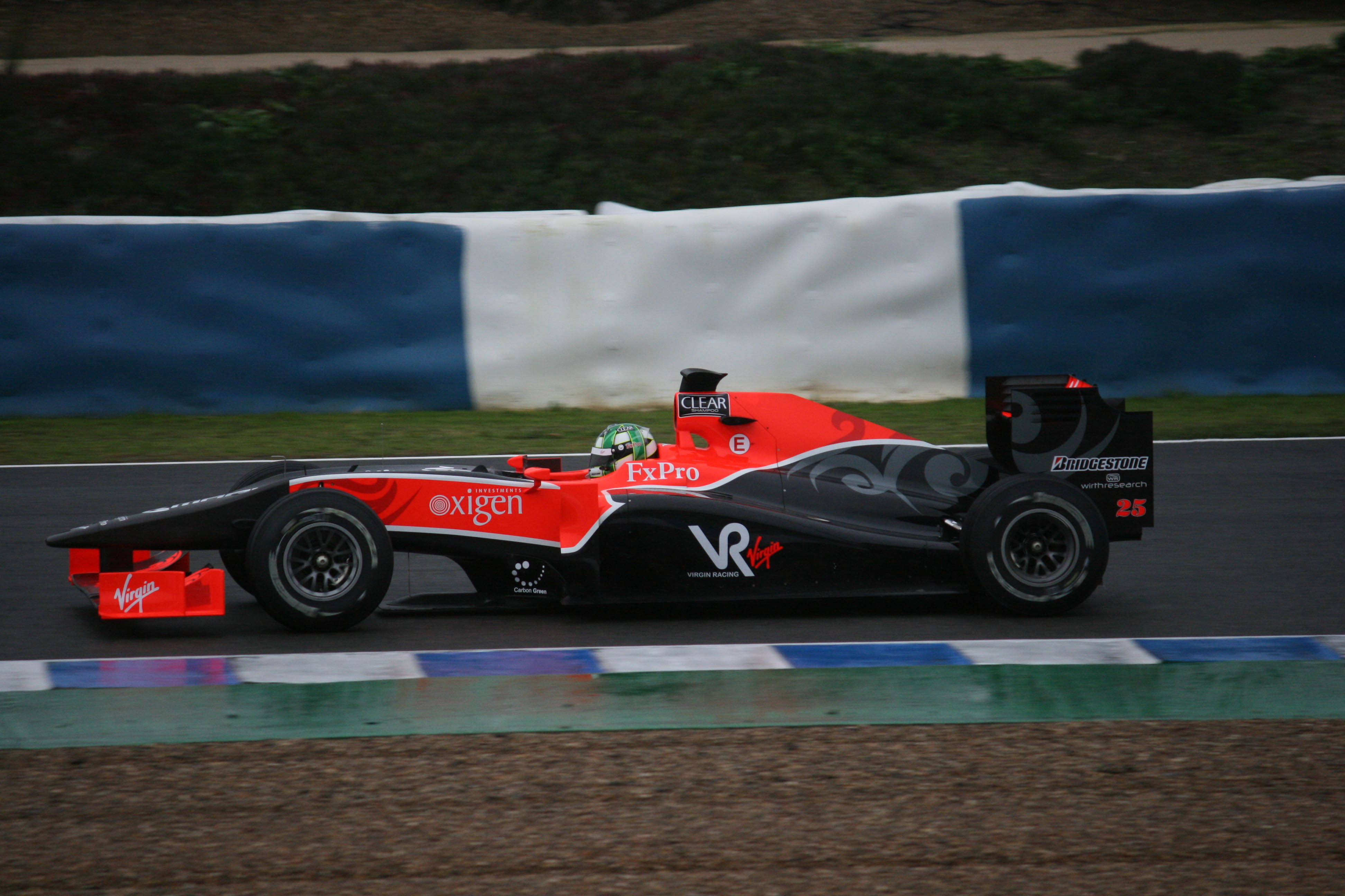 Lucas di Grassi testing for Virgin Racing at Jerez, 12/02/2010.